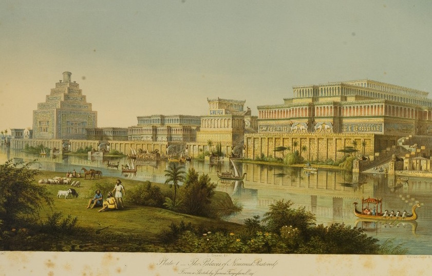 The Palaces at Nimrud Restored